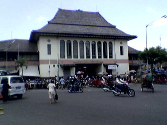 Pasar Gedhe Harjonagoro at Surakarta, Indonesia. Designed by Dutch architect, Thomas Karsten.